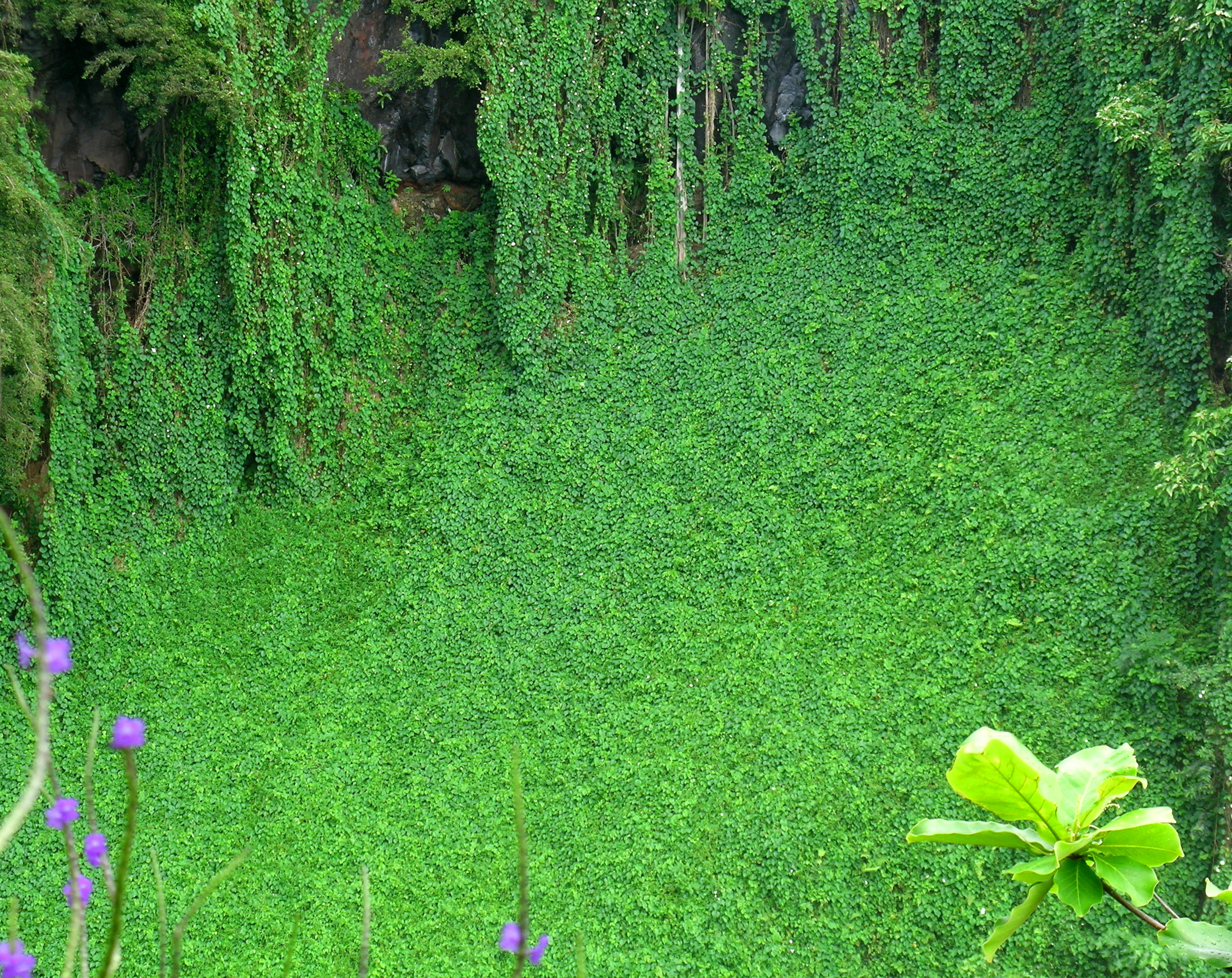 A beautiful wall of green... Makahiku Falls, beautiful cascade on the way to Waimoku falls, 'Ohe'o Gulch Stream, Haleakala National Park